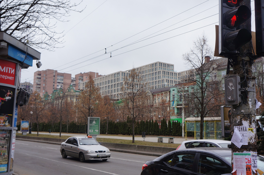 Karl Marx Avenue, Dnipropetrovsk, with Cascade Plaza Mall in the background